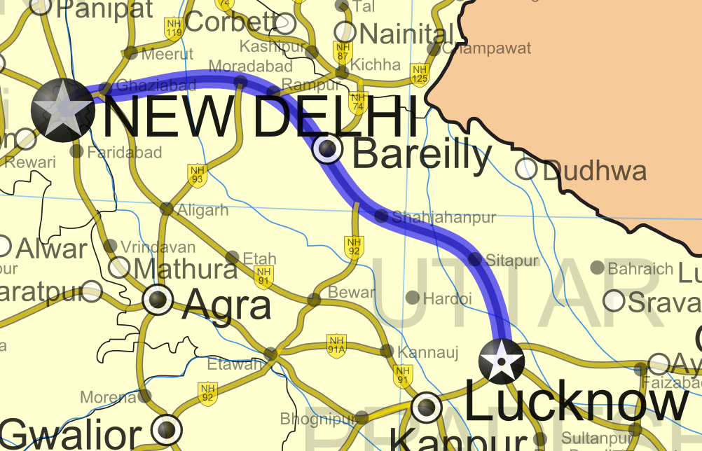 Map showing the national highway network in India. Includes NHDP projects upto phase IIIB which is due to be completed by December 2012. For actual progress of the NHDP refer to the maps below.